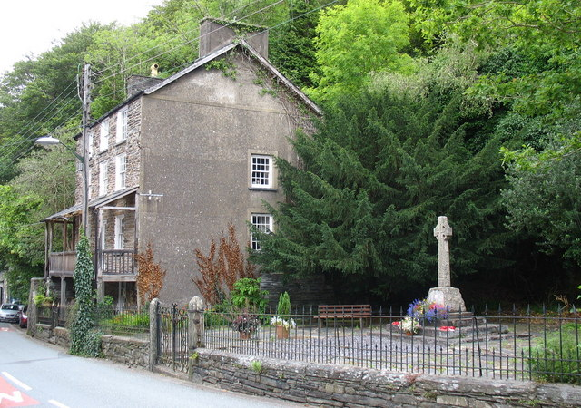 The War Memorial, Maentwrog "I ddwys goffau. Y rhwyg o golli'r hogiau" R. Williams Parry (a permanent reminder of "the wrench of losing the lads"). Wales lost 40,000 men in World War I.